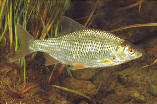 Rutilus rutilus